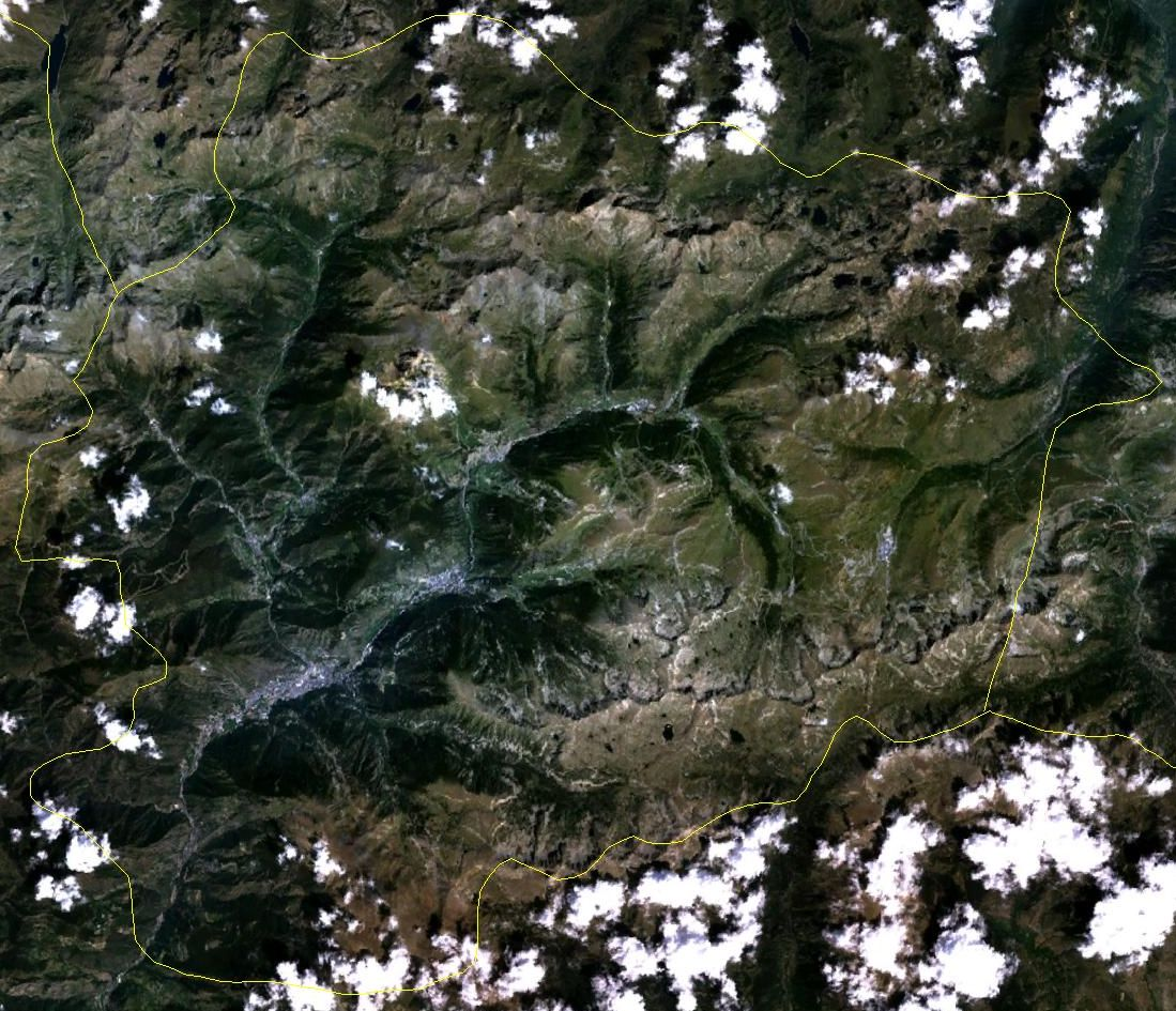 Satellite image of Andorra in August. Borders approximate. Taken from Landsat7.